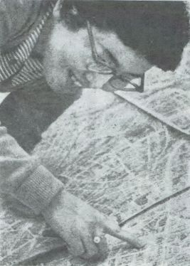 Toyoko Yamazaki